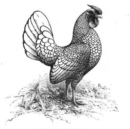 The example image of the ideal Silver Sebright rooster from the American Poultry Association's Standard of Perfection circa 1905.